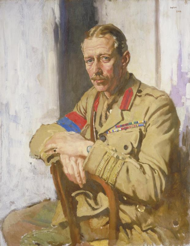 Lieut-col a N Lee, Dso, Obe, Td, Censor in France of Paintings and Drawings by Artists at the Front. 1919 image: A half-length portrait of Lee in uniform, sitting astride a reversed chair.